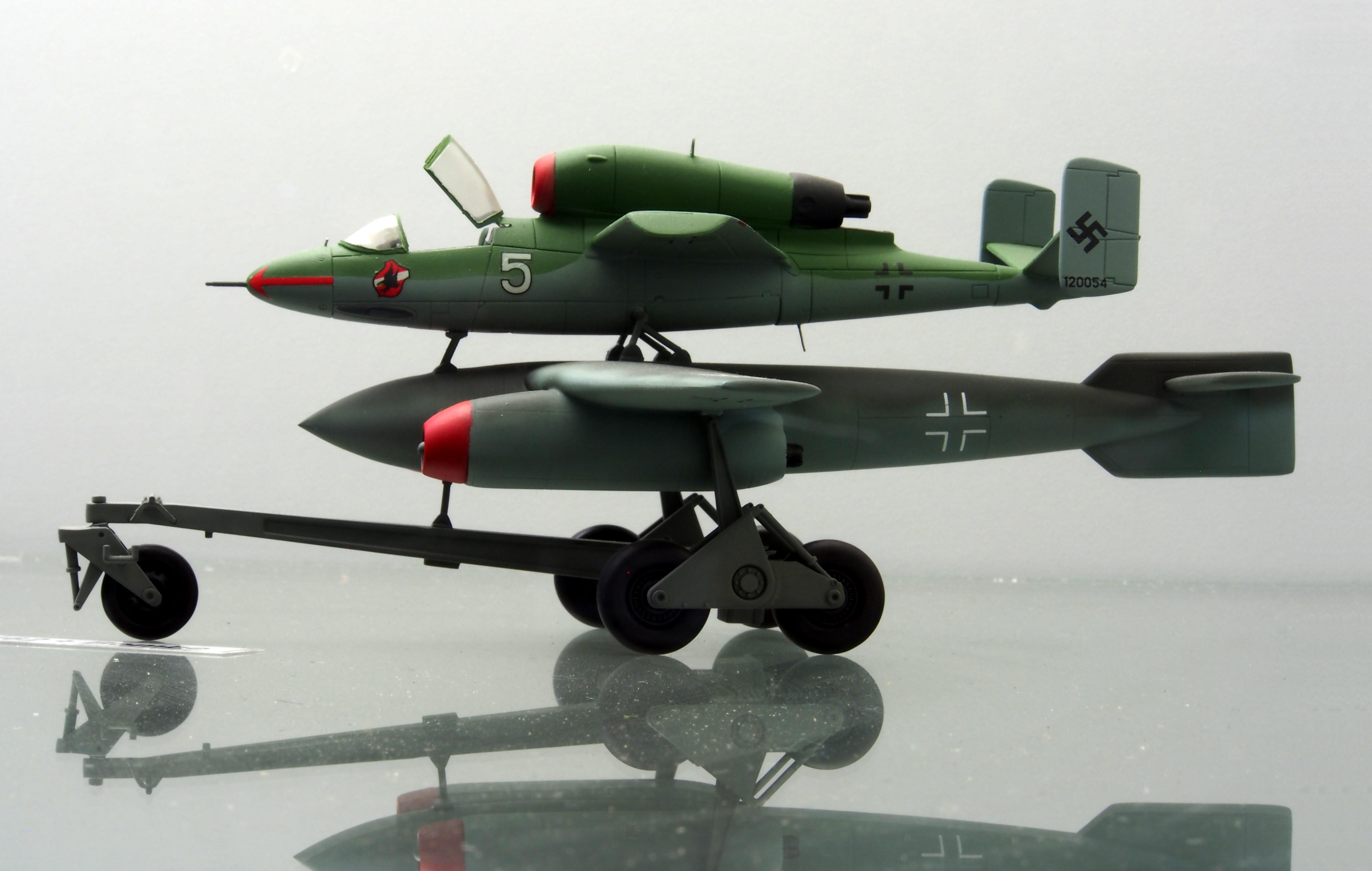 HE 162 mit Bombe (Heinkel He 162 & Arado E 377a)